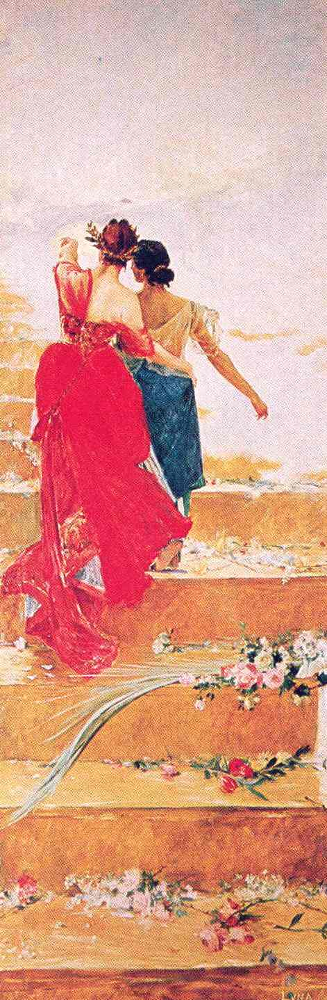 España y Filipinas, 1886 oil on canvas painting by Filipino painter Juan Luna.